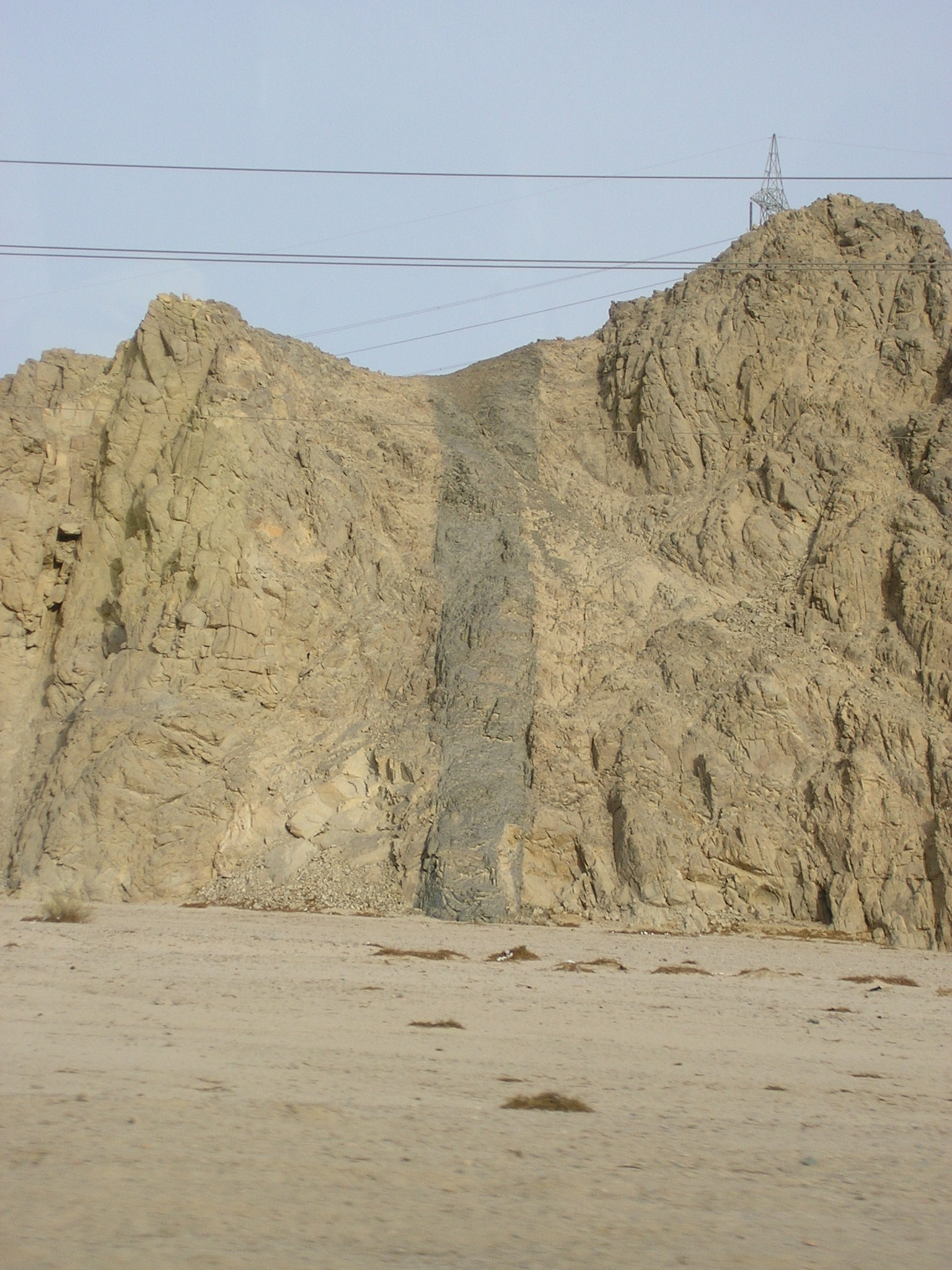 Basic dyke cutting Arabian Nubian Shield granite